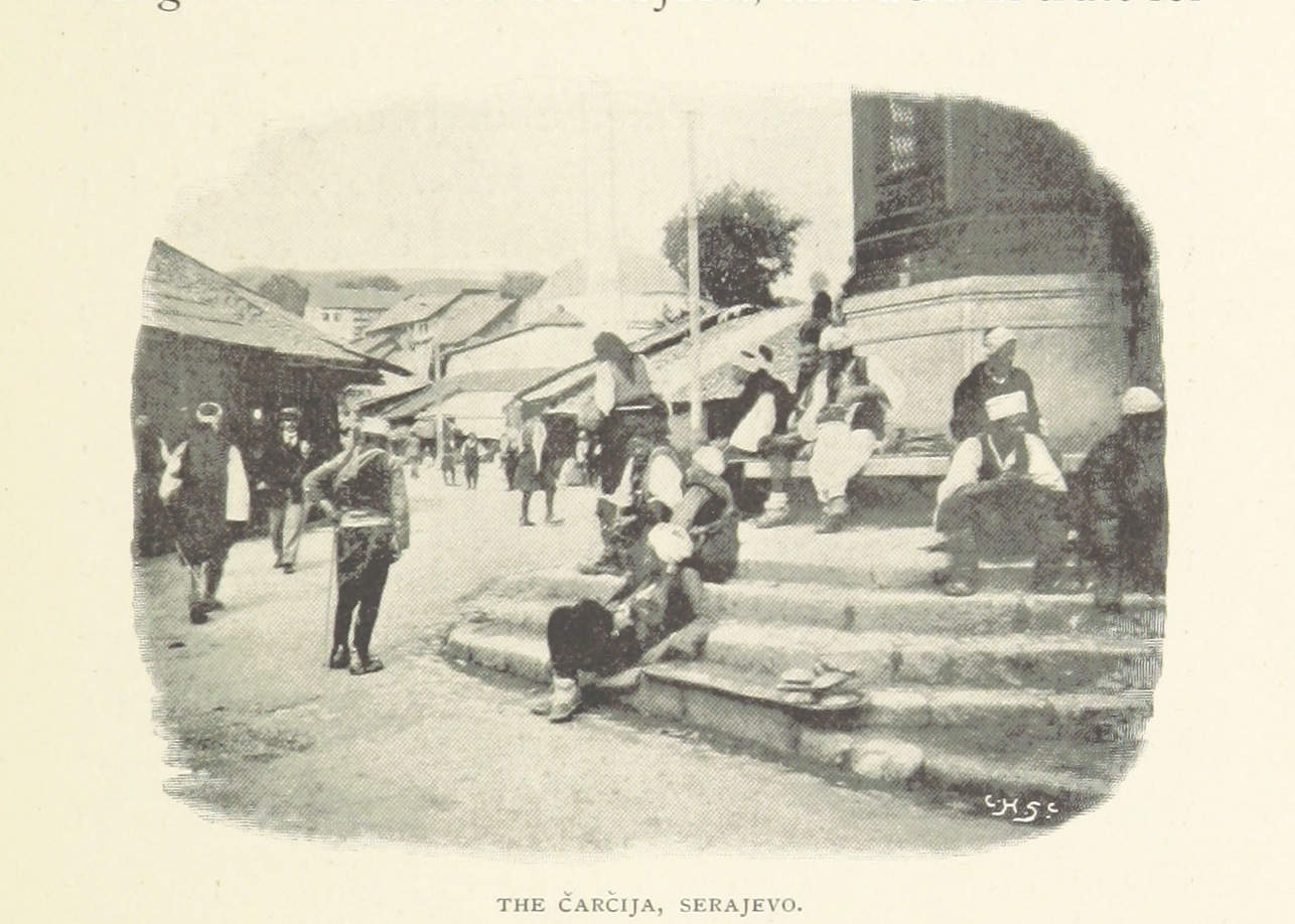 Image taken from: Title: "The Outgoing Turk: impressions of a journey through the western Balkans ... With seventy-six illustrations ... and three maps" Author: Thomson, H. C. (Harry Craufuird) Shelfmark: "British Library HMNTS 10126.ddd.4." Page: 71 Place of Publishing: London Date of Publishing: 1897 Publisher: W. Heinemann Issuance: monographic Identifier: 003625942 Note: The colours, contrast and appearance of these illustrations are unlikely to be true to life. They are derived from scanned images that have been enhanced for machine interpretation and have been altered from their originals. If you wish to purchase a high quality copy of the page that this image is drawn from, please order it here. Please note that you will need to enter details from the above list - such as the shelfmark, the page, the book's volume and so on - when filling out your order. Explore: Find this item in the British Library catalogue, 'Explore'. Open the page in the British Library's itemViewer (page: 71) Download the PDF for this book Click here to see all the illustrations in this book and click here to browse other illustrations published in books in the same year. Please click on the tags shown on the right-hand side for other ways to browse the illustrations.